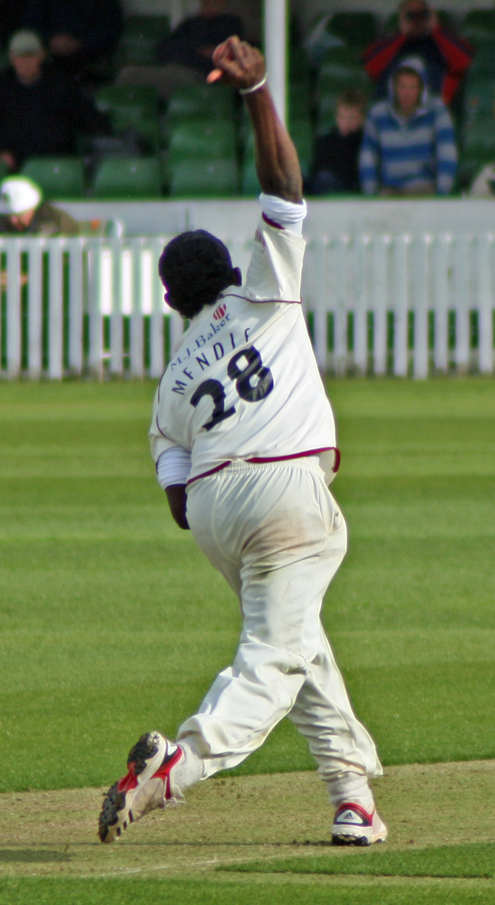 Ajantha Mendis at the point of delivery. He bowls with the carrom ball style, flicking between his middle finger and thumb to release it, giving him the ability to spin the ball in either direction without the batsman noticing a difference in his action. Picture taken during day one of the County Championship match between Somerset and Warwickshire at the County Ground, Taunton.